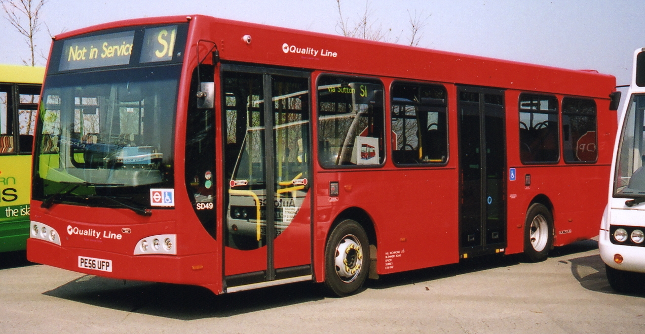 Epsom Buses (trading as Quality Line) bus SD49 (reg. PE56 UFP), pictured at the 2007 Longcross bus rally.